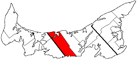 Adapted from existing Prince Edward Island election results maps to depict a specific electoral district.